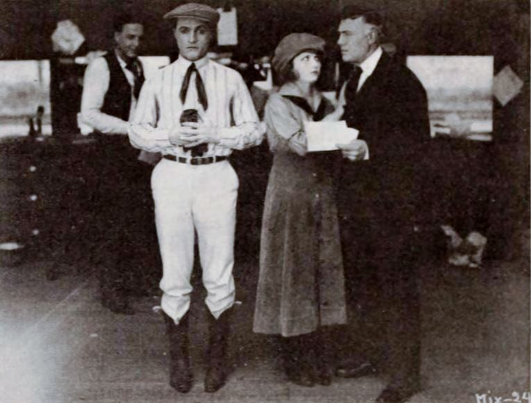 Still from the American comedy western film The Daredevil (1920) with Tom Mix, Eva Novak, and Charles K. French, on page 57 of the March 27, 1920 Exhibitors Herald.